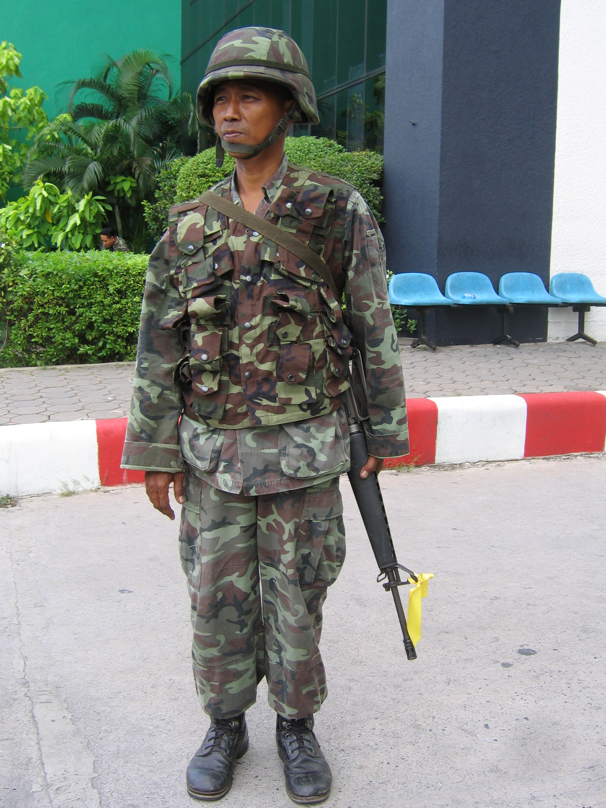 A Royal Thai Army soldier stands guard outside Nation Tower on Bang Na-Trad Highway following the 2006 Thailand coup d'état.